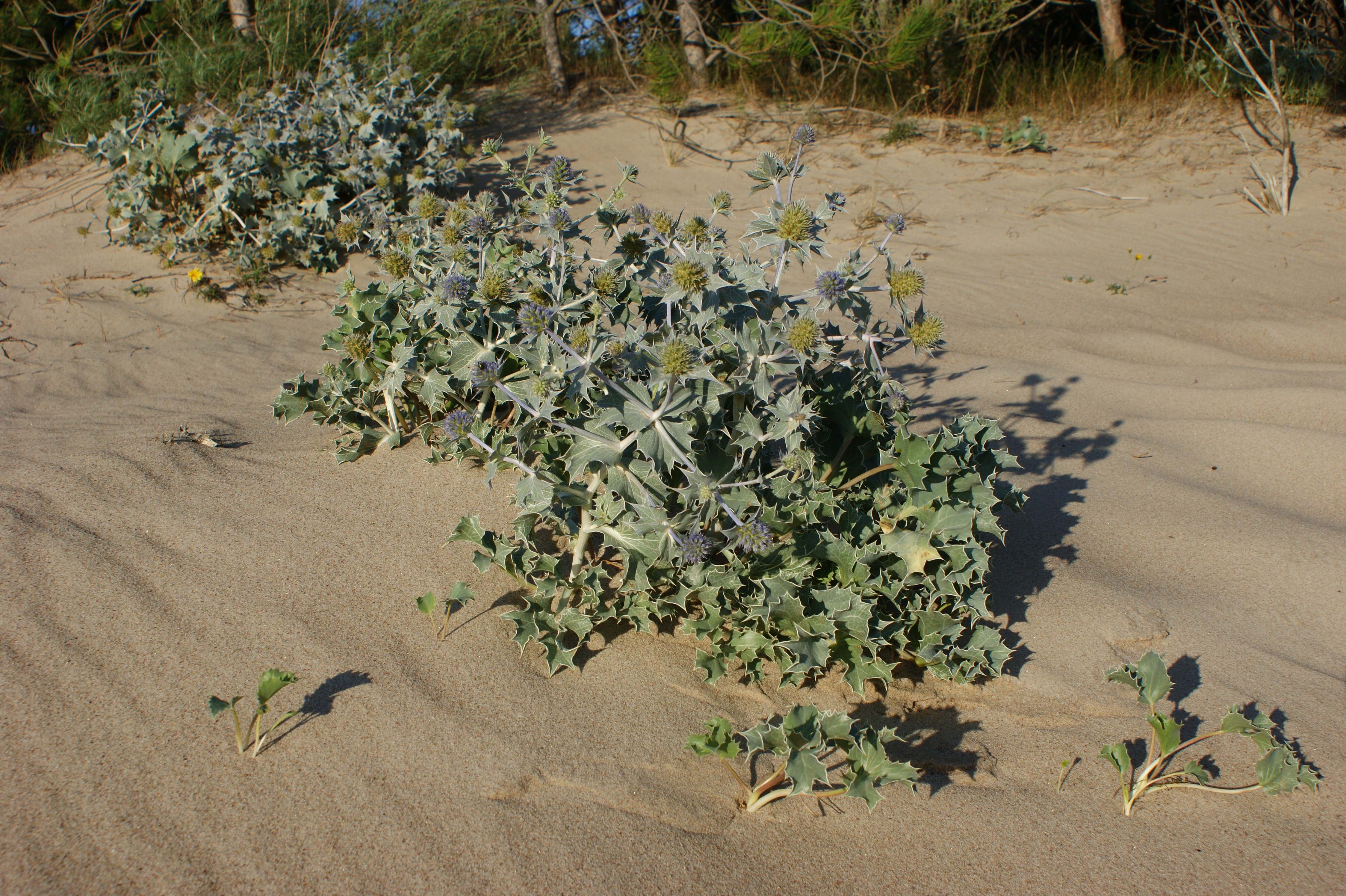 Eryngium maritimum in Darłowo on Baltic See.